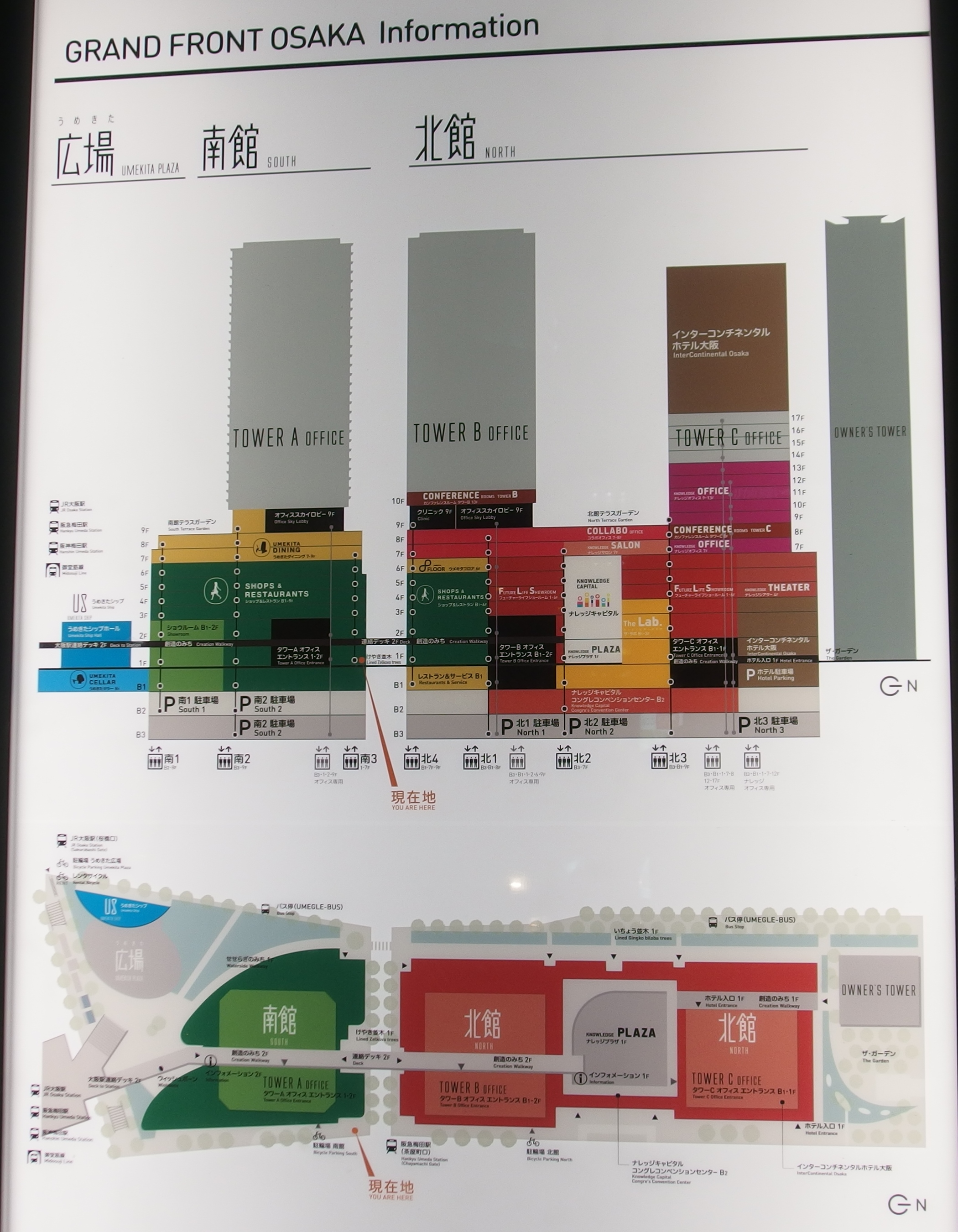 Grand Front Osaka, Osaka, Osaka Prefecture, Japan